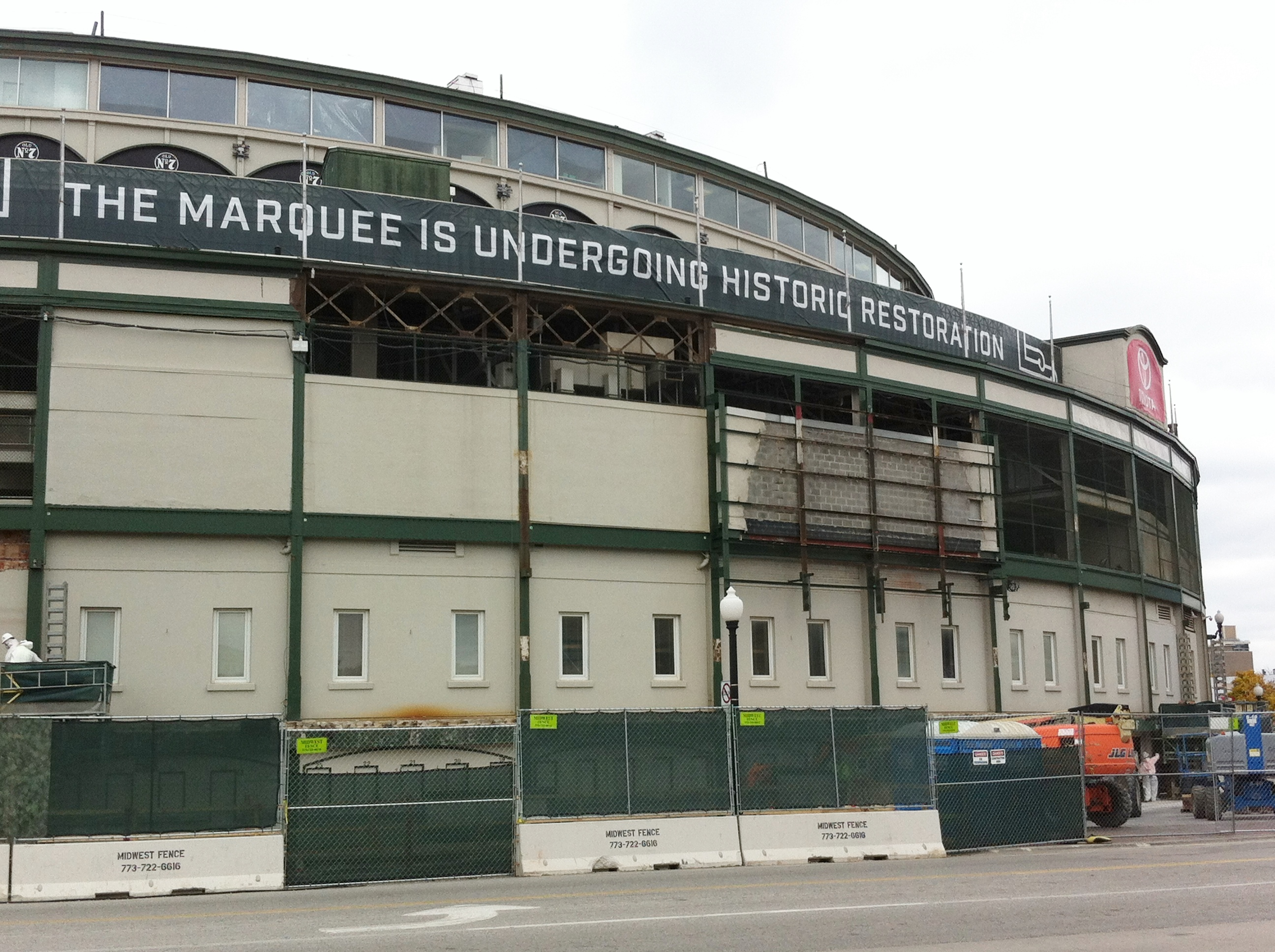 Installed in 1933, the historic Wrigley Field marquee has been removed for restoration during Phase Two of the 1060 Project.